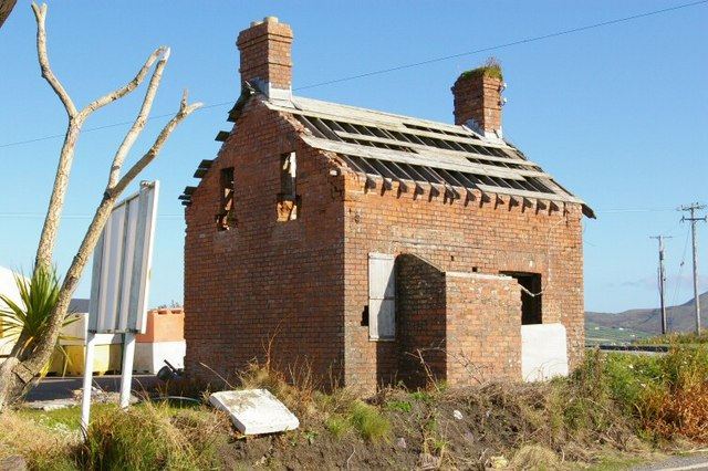 Old Goods Shed, Reenard Perhaps the only remaining railway building at Reenard - once the most westerly standard (Irish) gauge line in Europe.